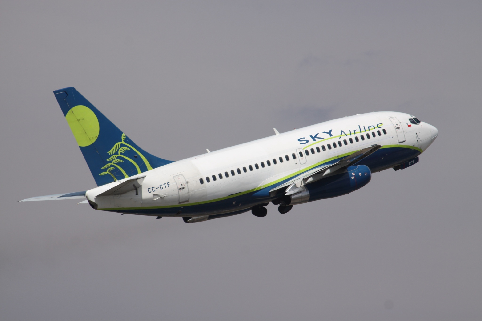 At Santiago